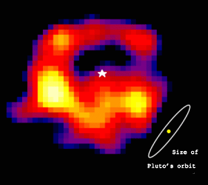 Submillimeter image of a ring of dust particles around the star Epsilon Eridani. The image was taken using the SCUBA camera of the James Clerk Maxwell Telescope.